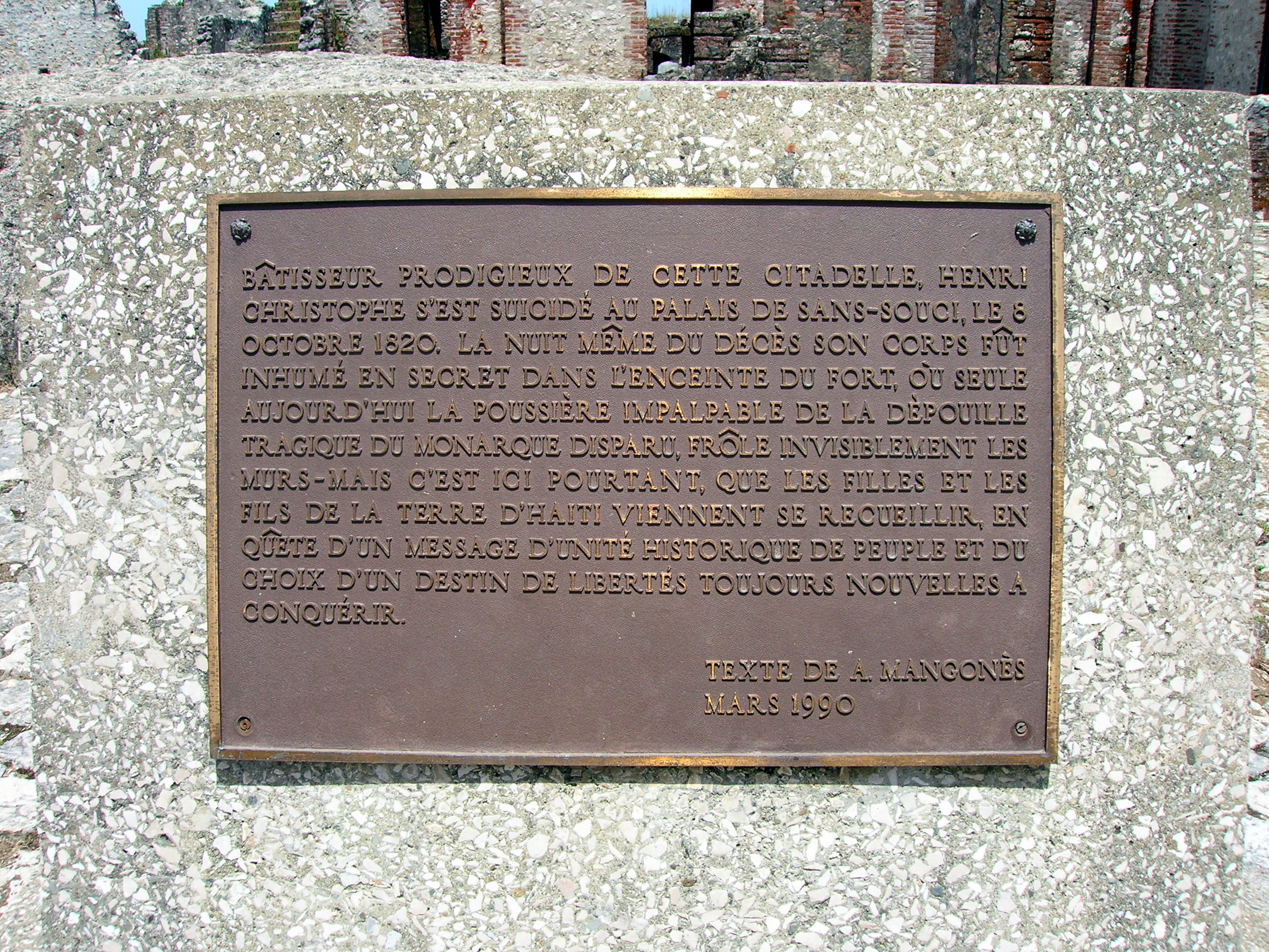 The Citadelle Laferrière, near Milot in Haiti : the sign commemorating Henri Christophe's death.